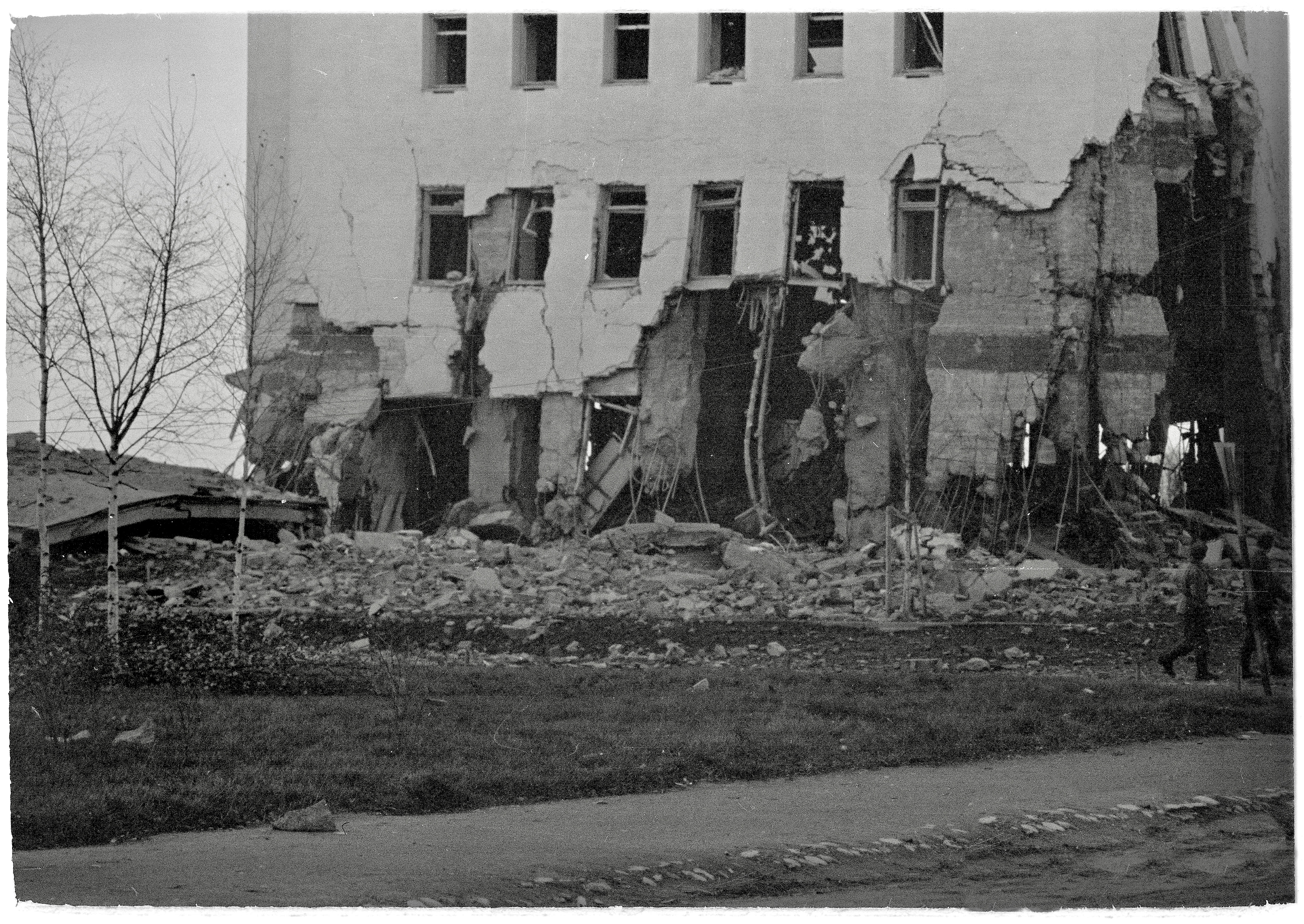 German troops tried to destroy the town hall of Kemi during the Lapland War in 1944. Explosives damaged the 13-story building severely but it stayed standing (and was repaired after the war)